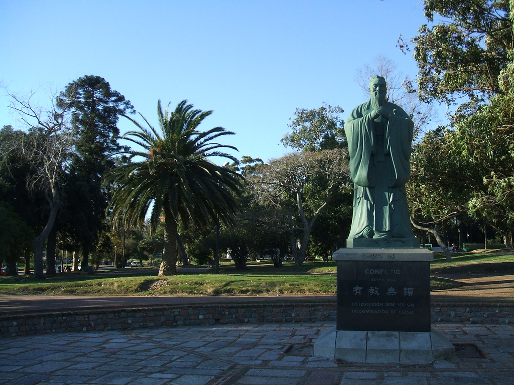 Homage to Confucius, in Montevideo, Uruguay.